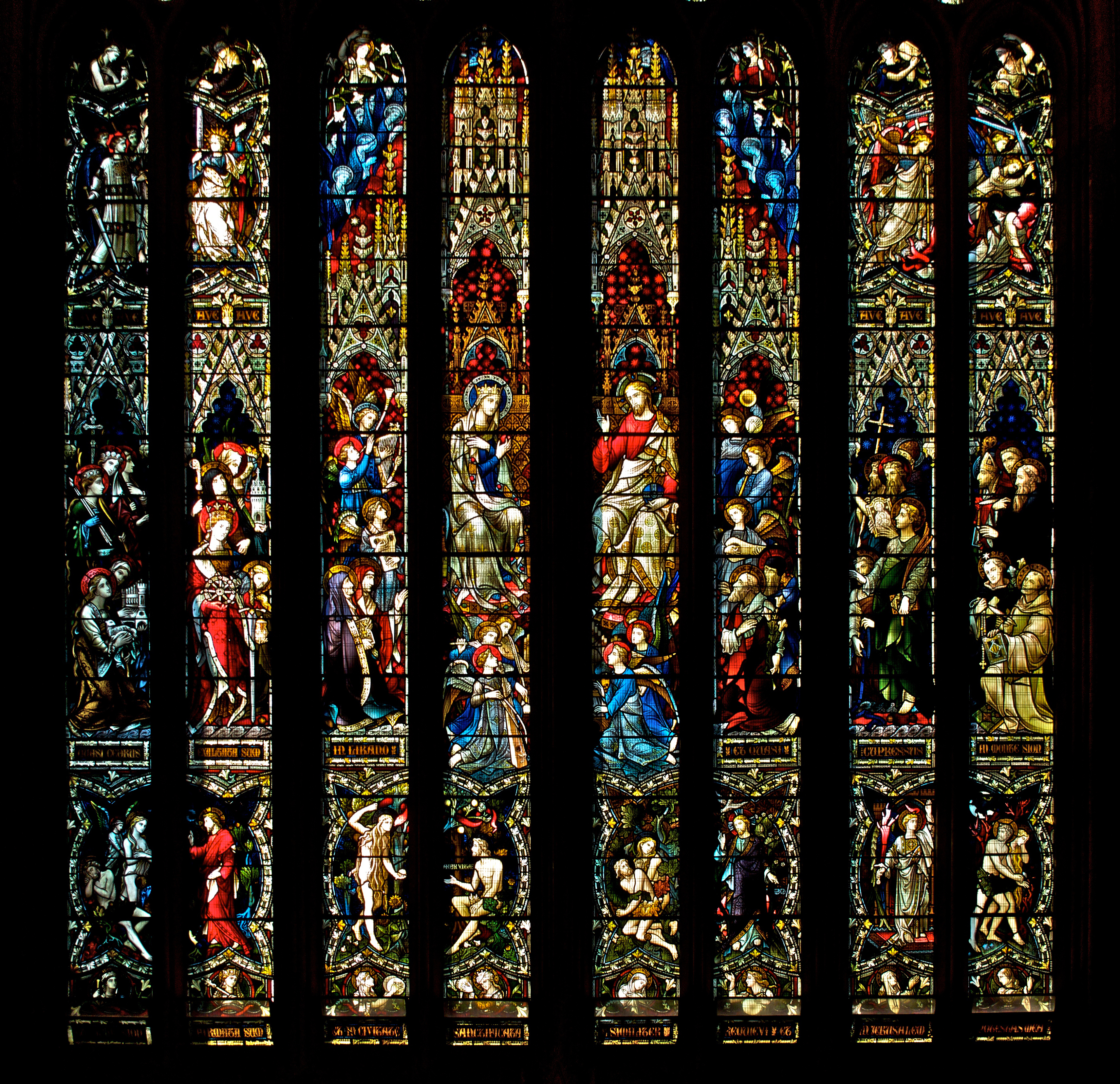 A stained glass window inside St. Mary's Cathedral in Sydney, Australia